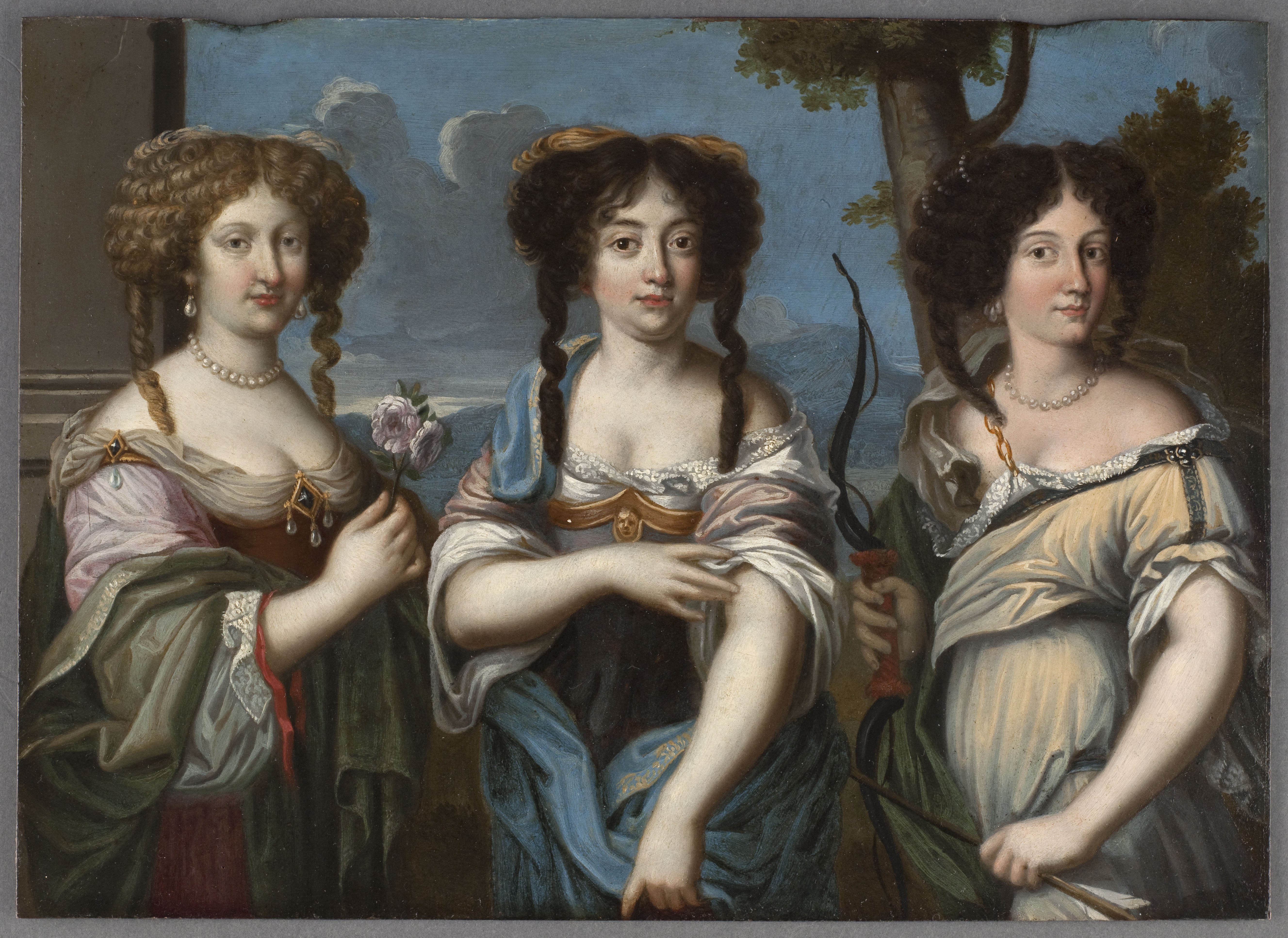 Portrait of Three Nieces of Cardinal Mazarin portrayed as goddesses, Venus, Juno and Diana: Olympia (left), Hortense (center) and Marie Mancini (right)